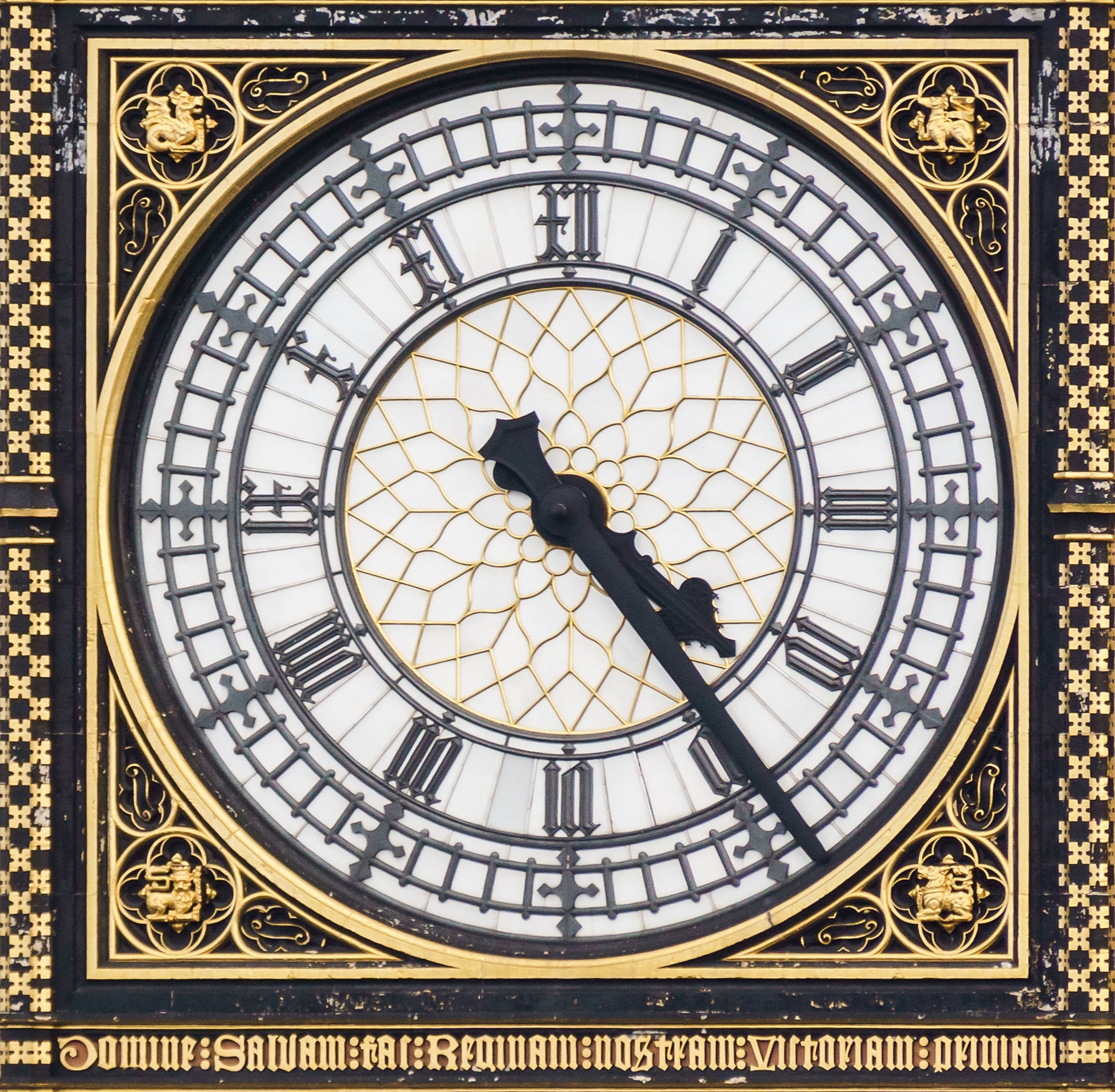 The clock face of Big Ben (Elizabeth Tower). Wikidata has entry Q62408 with data related to this building.